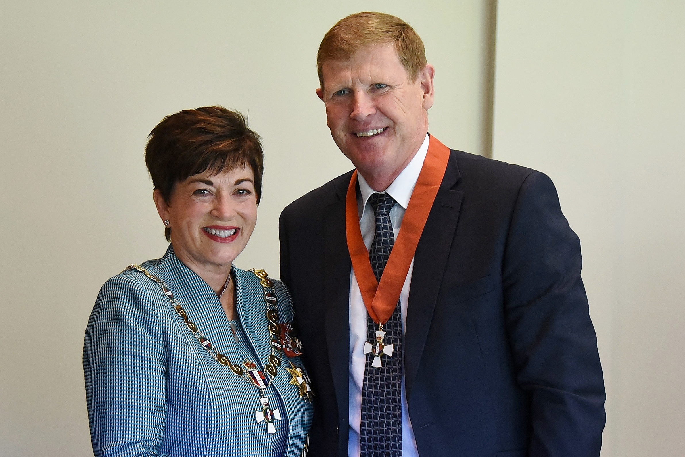 Mike Stanley, of Auckland, after his investiture as CNZM, for services to sport, by the Governor-General, Dame Patsy Reddy, on 26 April 2017